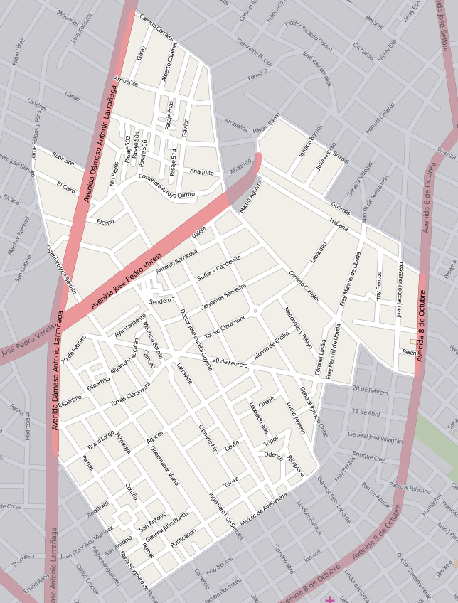 Street map of Villa Española, Montevideo, exported from OpenStreetMap. I added shading to delimit the barrio. This map may be incomplete, and may contain errors. Don't rely solely on it for navigation.